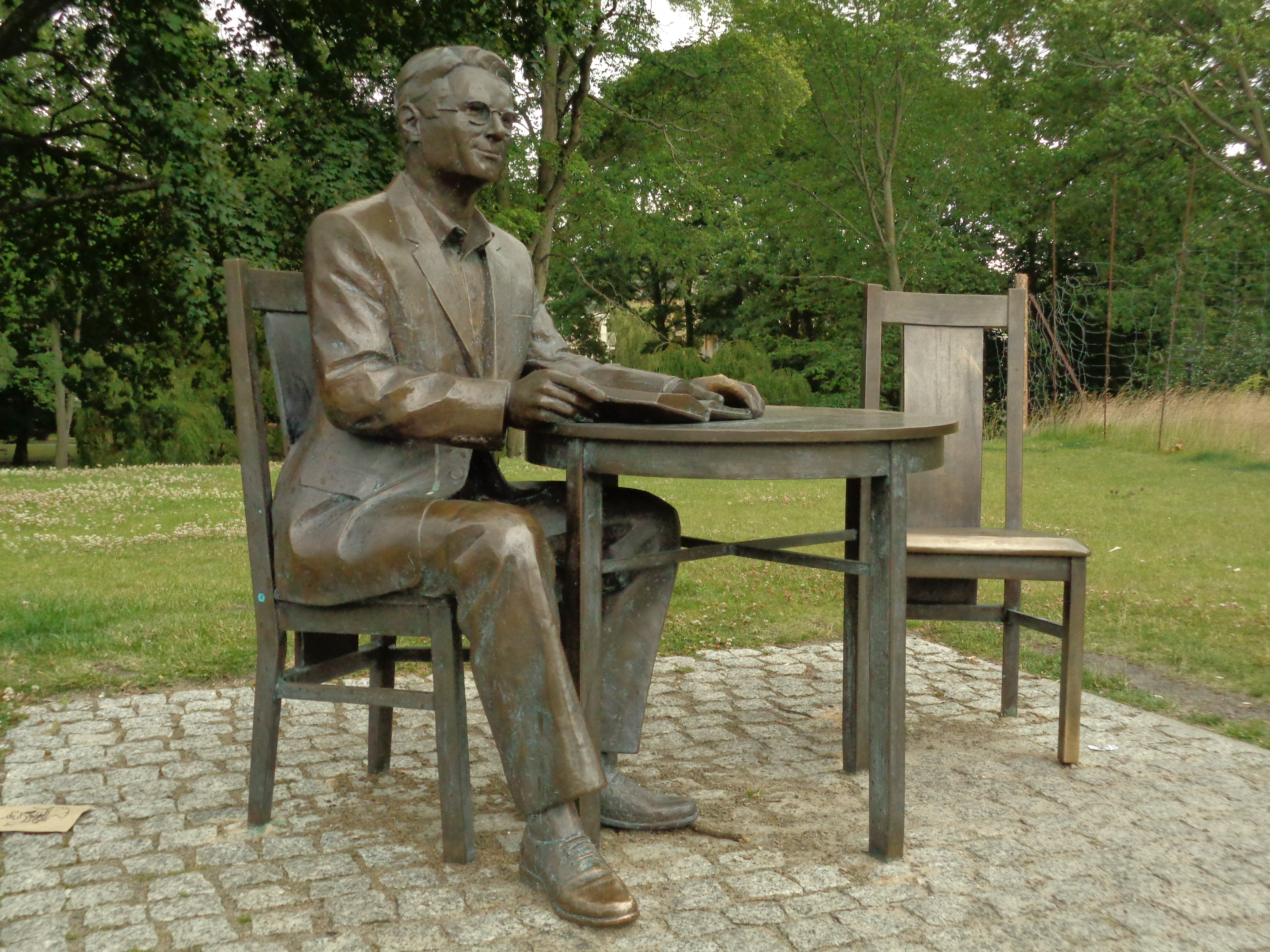 Krzysztof Kolberger monument in Międzyzdroje.